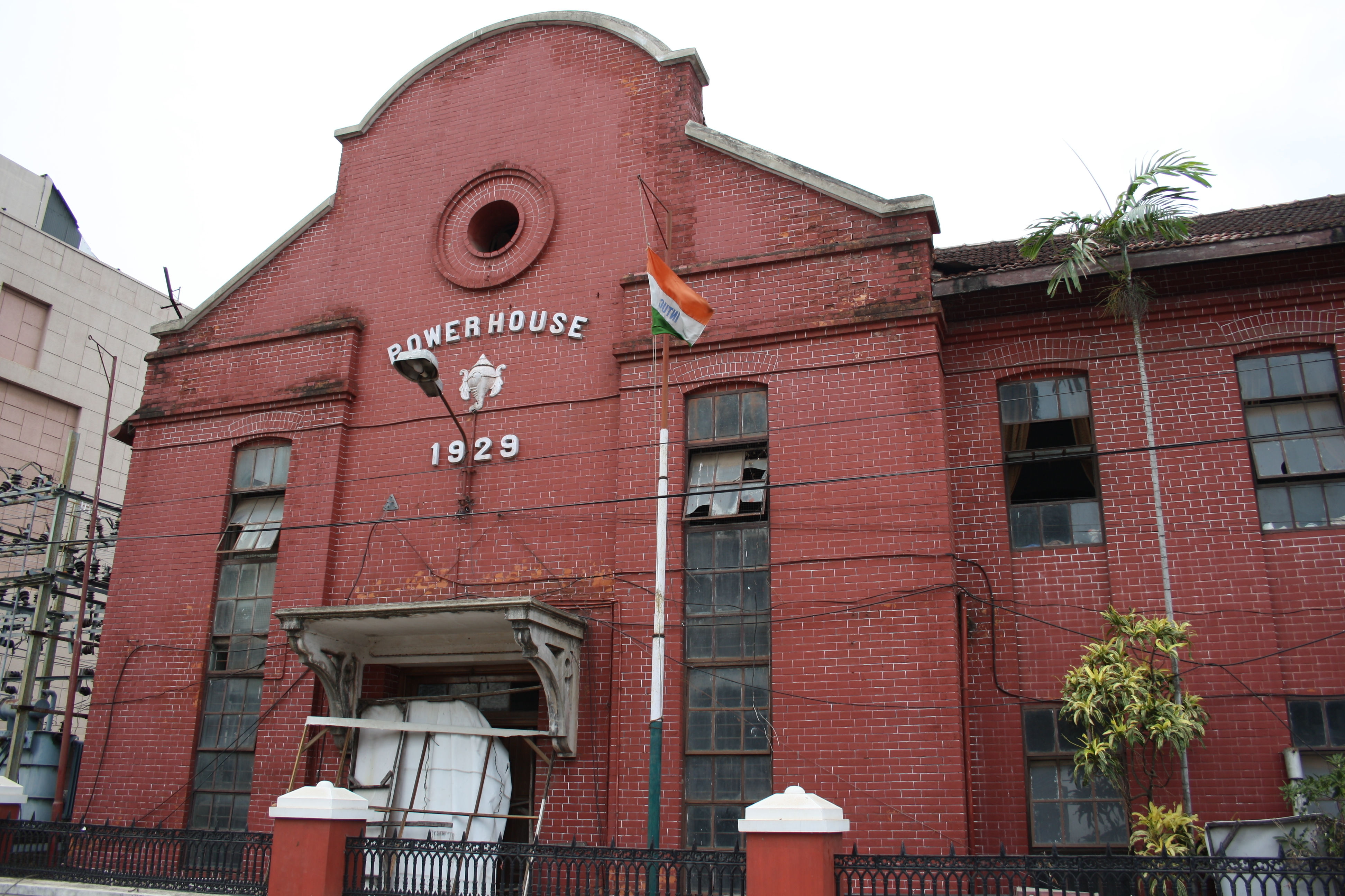 power house, thiruvananthapuram.